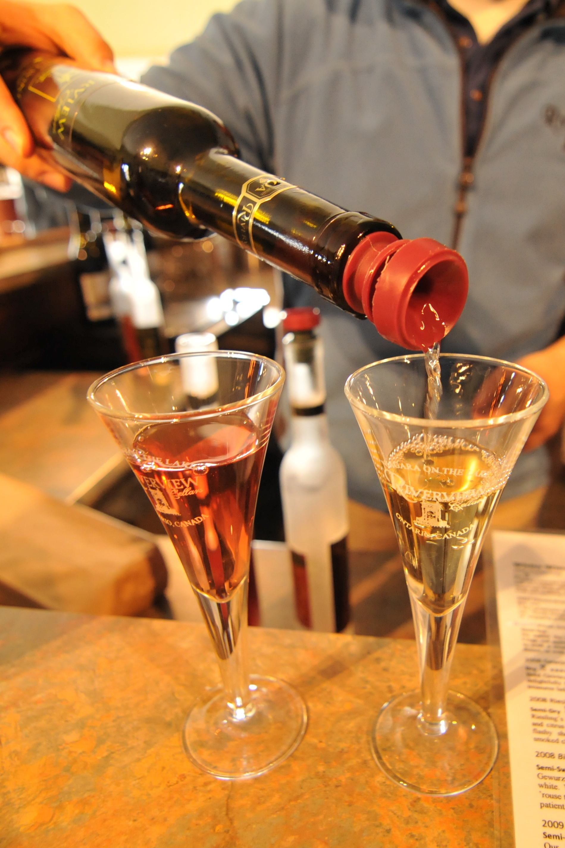 Two ice wines from Riverview Cellars in the Niagara wine region of Ontario, Canada